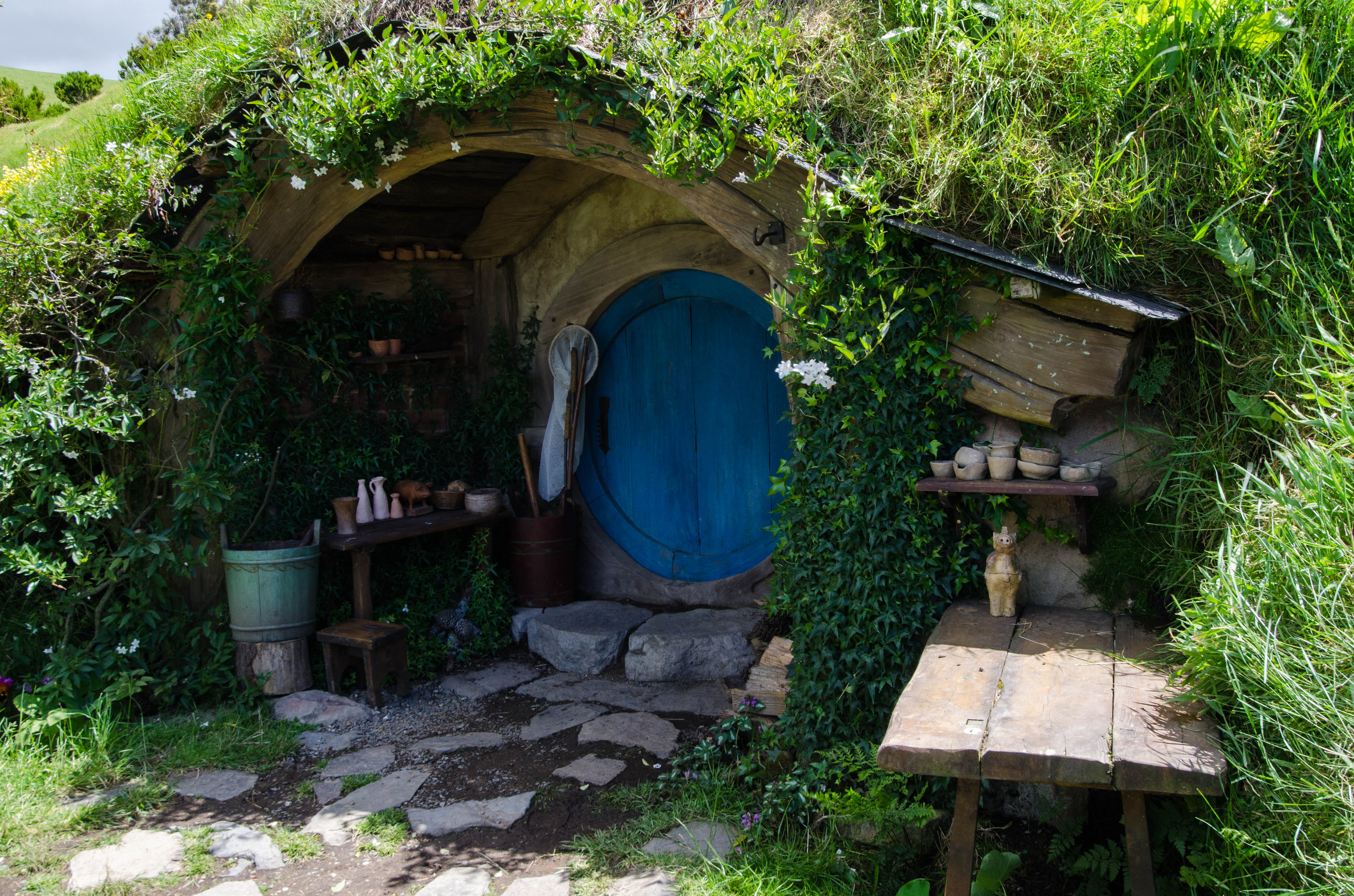 Seen as Hobbiton in The Lord of the Rings and The Hobbit.